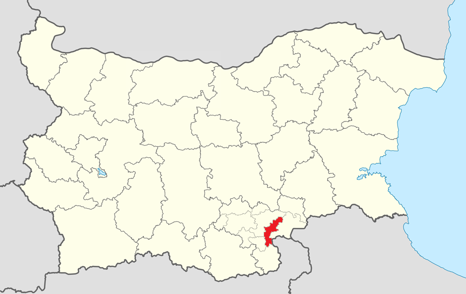 Location map of Lyubimets Municipality within Bulgaria and Haskovo Province